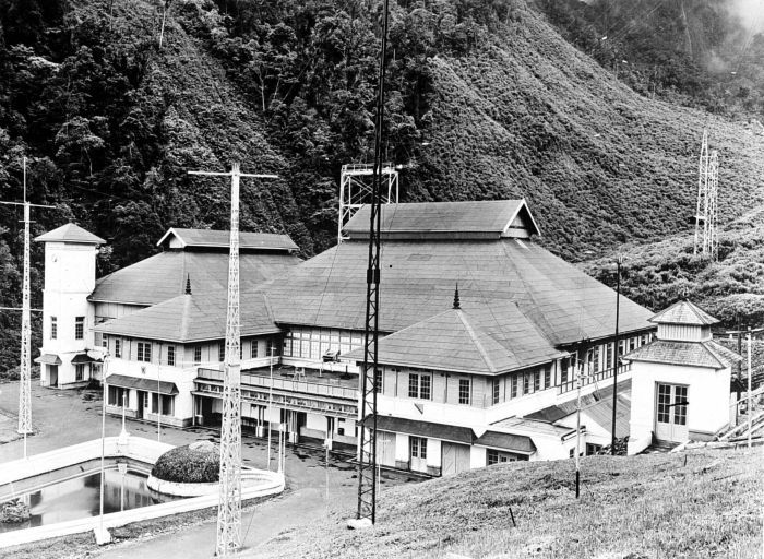 Malabar Radio station on Mount Malabar